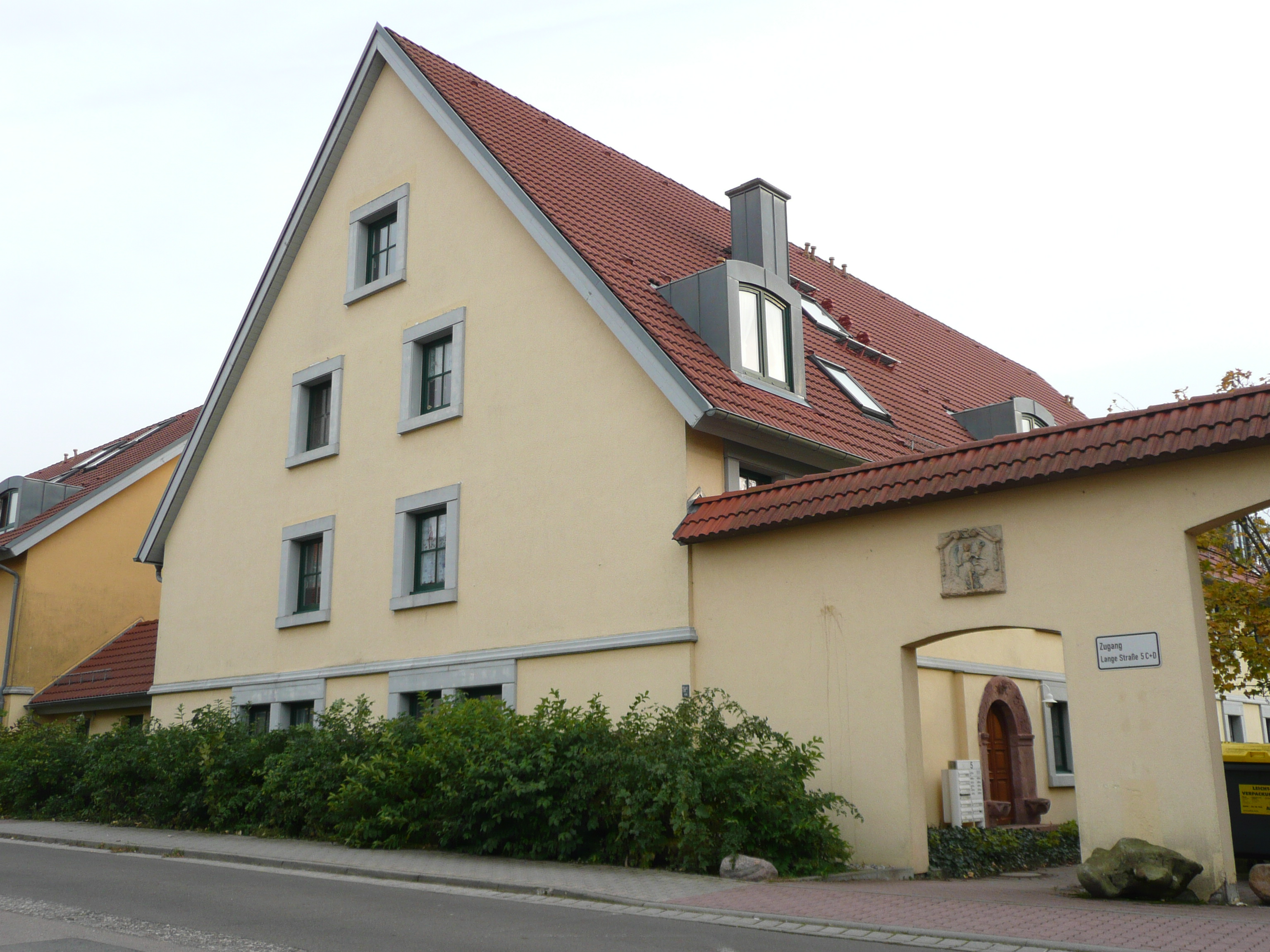 The today´s housing area in Lange Straße in Panitzsch — formerly manor with tavern „Blauer Engel“ at the same site.